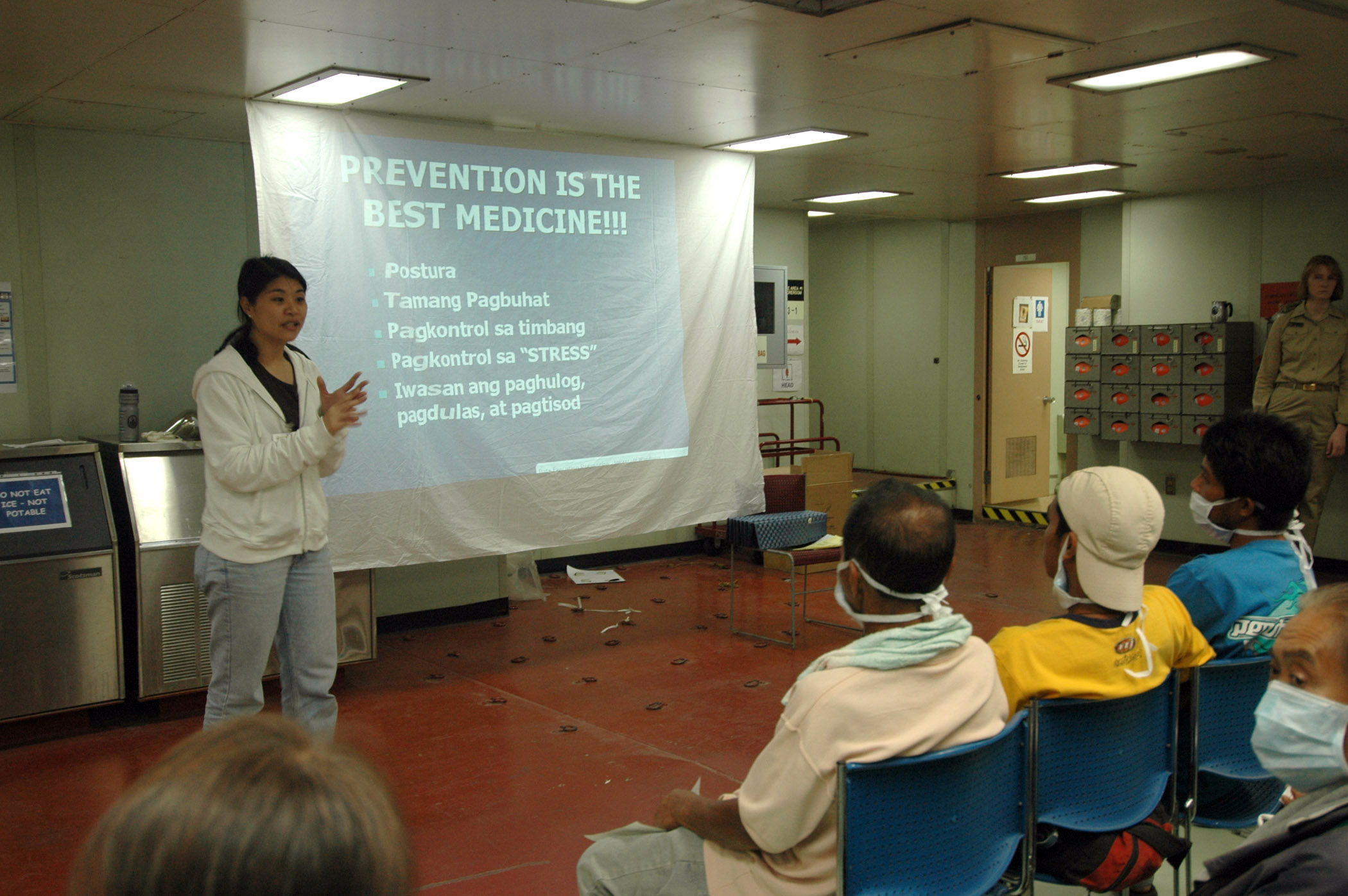 Jolo, Philippines (June 7, 2006) - Penny Ching, occupational therapist with the Aloha Medical Mission, a nongovernmental organization aboard the U.S. Military Sealift Command (MSC) Hospital ship USNS Mercy (T-AH 19), teaches classes to patients. Aloha Medical Mission teamed up with the Navy to help provide humanitarian assistance in Mercy’s five-month deployment to host nations in the Pacific Islands, and South and Southeast Asia. Mercy has already visited Zamboanga, Philippines, where its crew had treated several thousand patients in one week. Helicopter Sea Combat Squadron Two Five (HSC-25) is attached to Mercy and will provide medical evacuation for patients as well as a mode of transportation for medical personnel to reach the shore. Mercy is uniquely capable of supporting medical and humanitarian assistance needs and is configured with special medical equipment and a robust multi-specialized medical team who can provide a range of services ashore as well as aboard the ship. The medical staff is augmented with an assistance crew, many of whom are part of nongovernmental organizations, foreign militaries and other branches of U.S. military that have significant medical capabilities. U.S. Navy photo by Journalist Seaman Apprentice Mike Leporati (RELEASED)